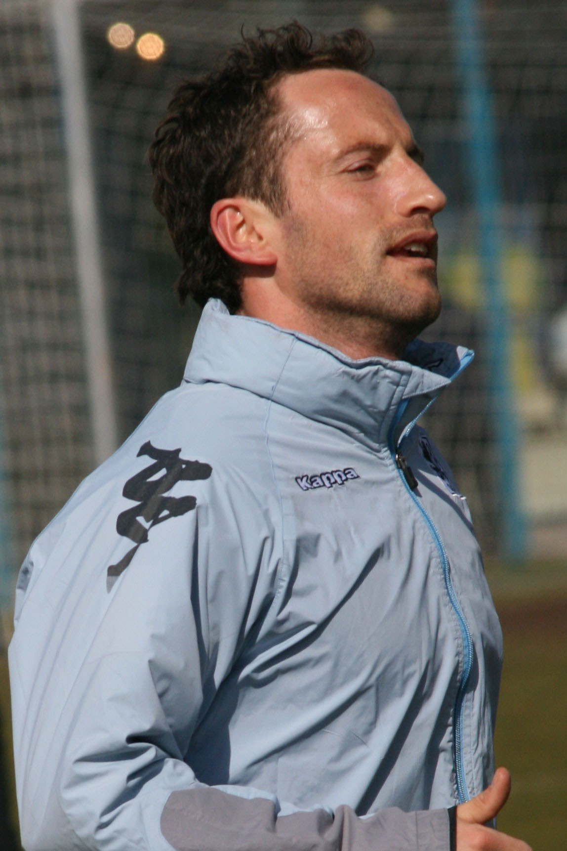 Roman Tyce, player of TSV 1860 München, training, 11.03.2007, Grünwalder Str., Munich